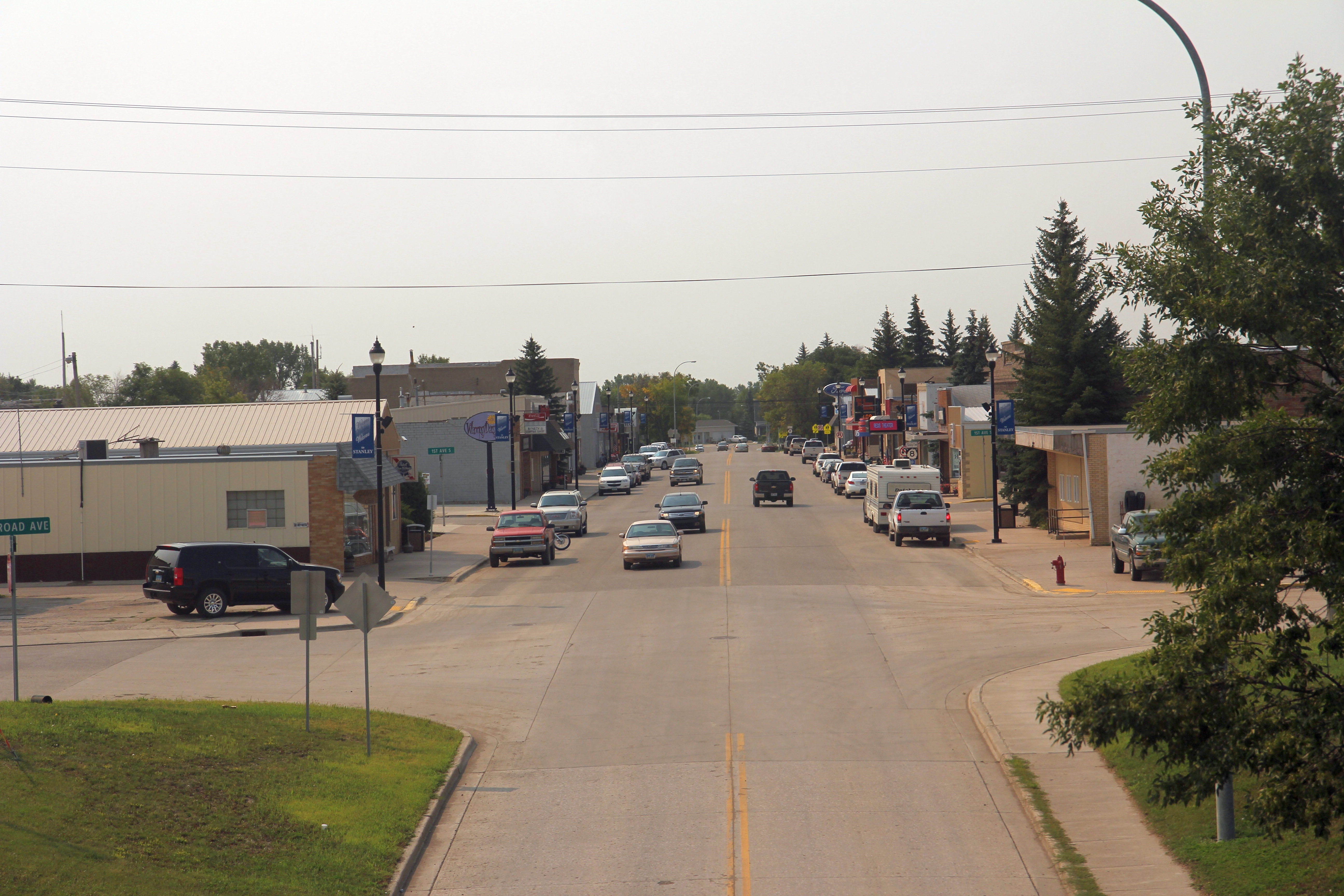 Looking north in downtown Stanley, North Dakota on North Dakota 8.